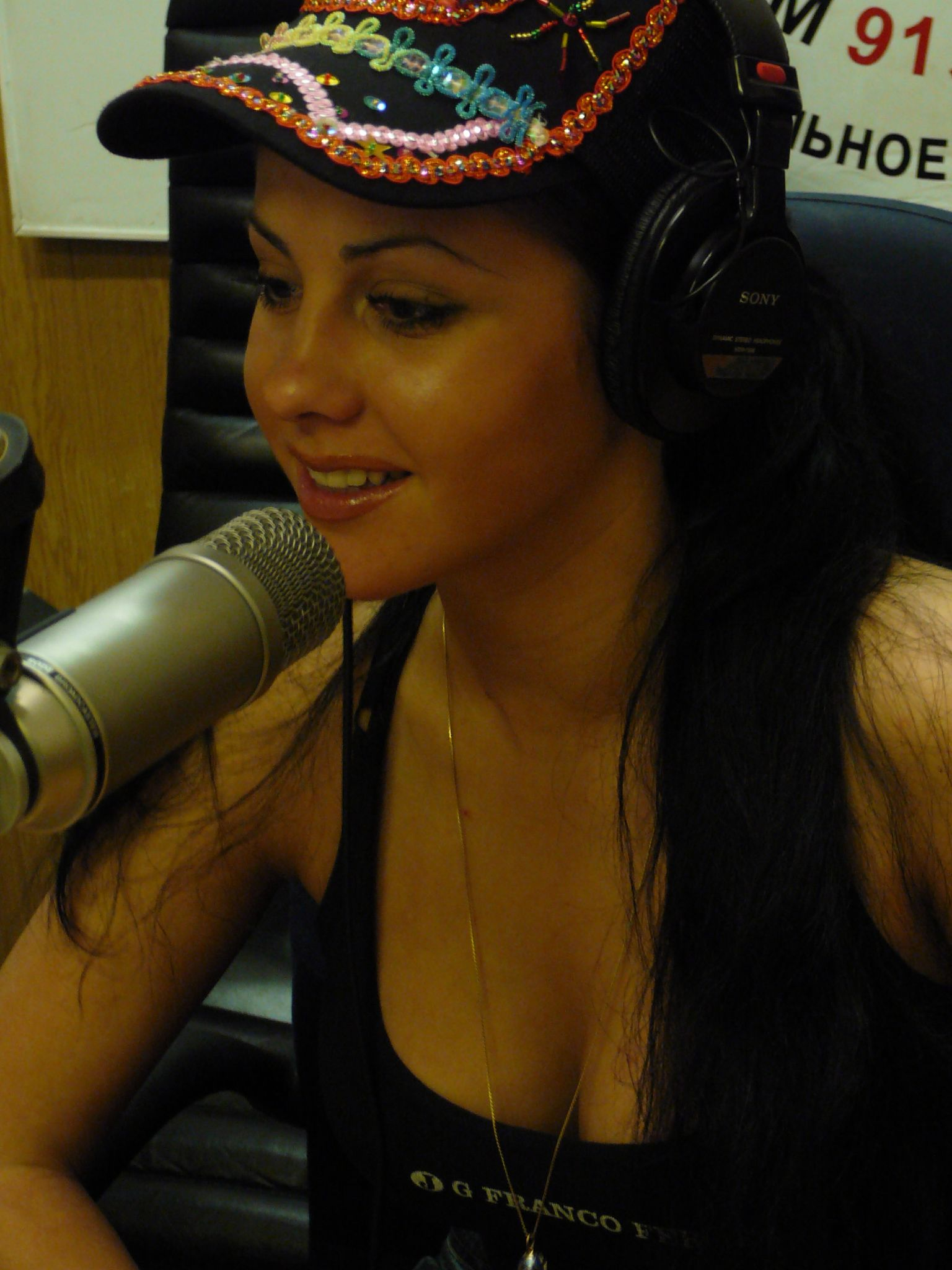 Elena Berkova, Ukrainian pornographic film actress and singer